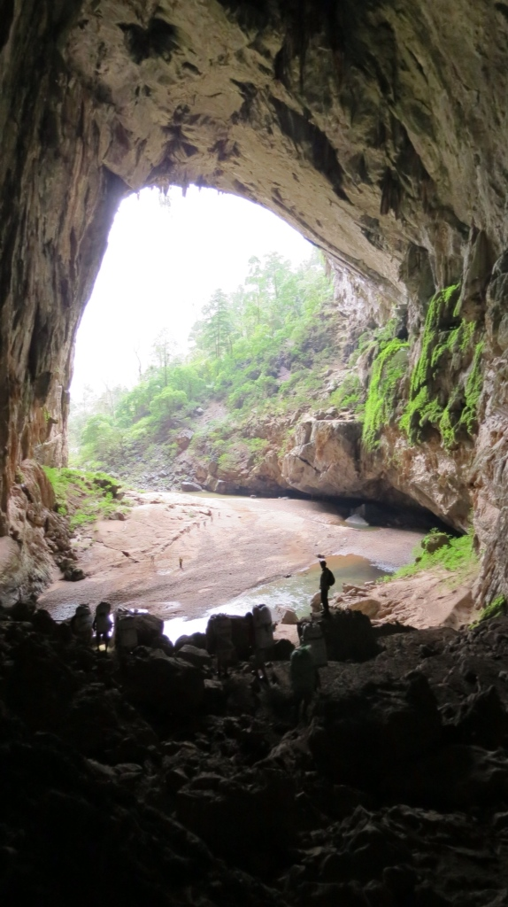 Son Doong-18 This photo has been challenged at Talk:Sơn_Đoòng_Cave#Incorrect Infobox Picture as misidentified/mistitled, and is actually a photo of the cavern Hang Én in the same national park.